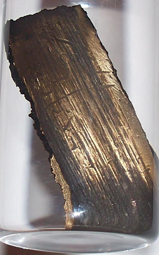 1 oz. uranium 238 under oil